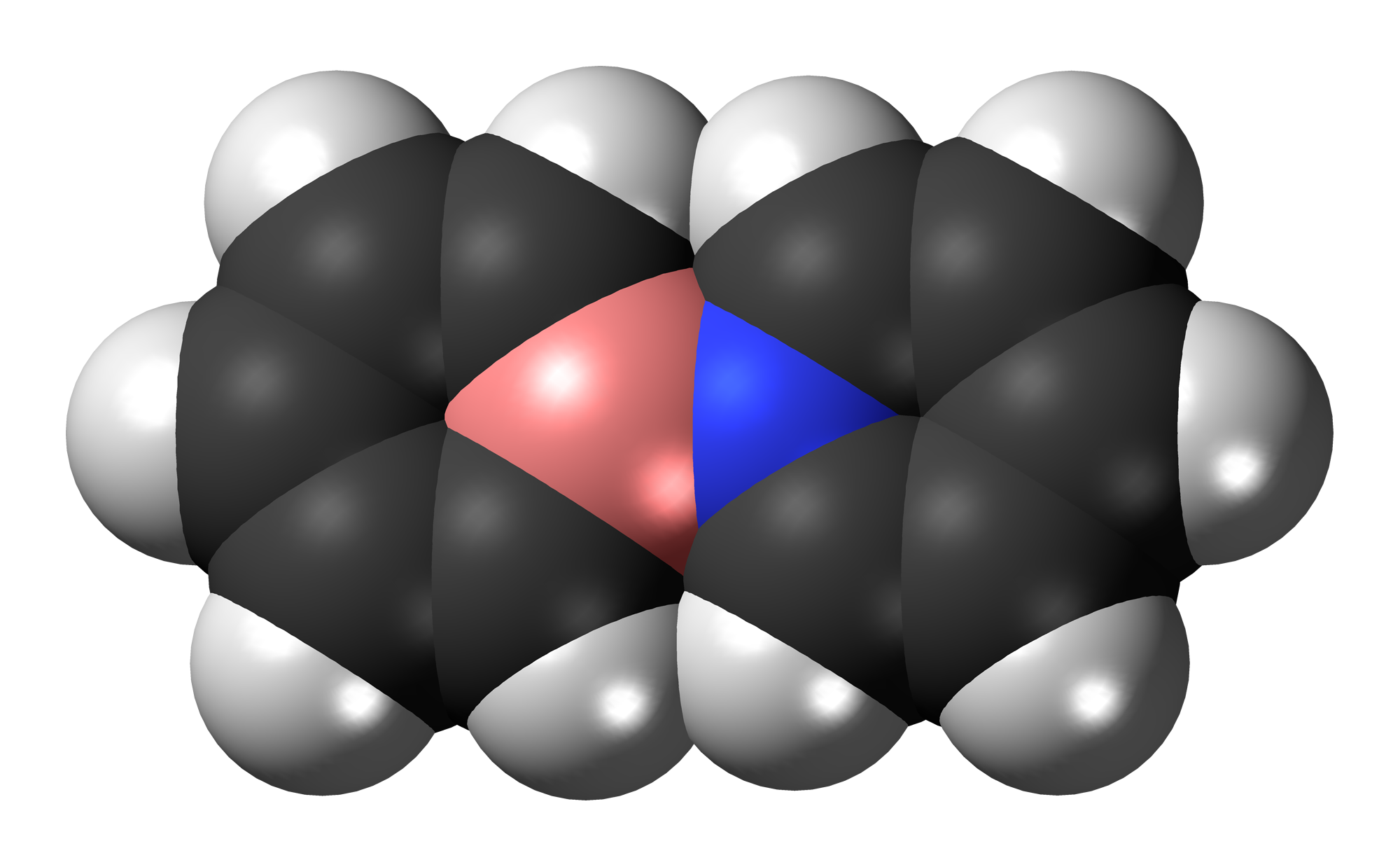 Space-filling model of an adduct of borabenzene and pyridine. Colour code: Carbon, C: black Hydrogen, H: white Nitrogen, N: blue Boron, B: pink